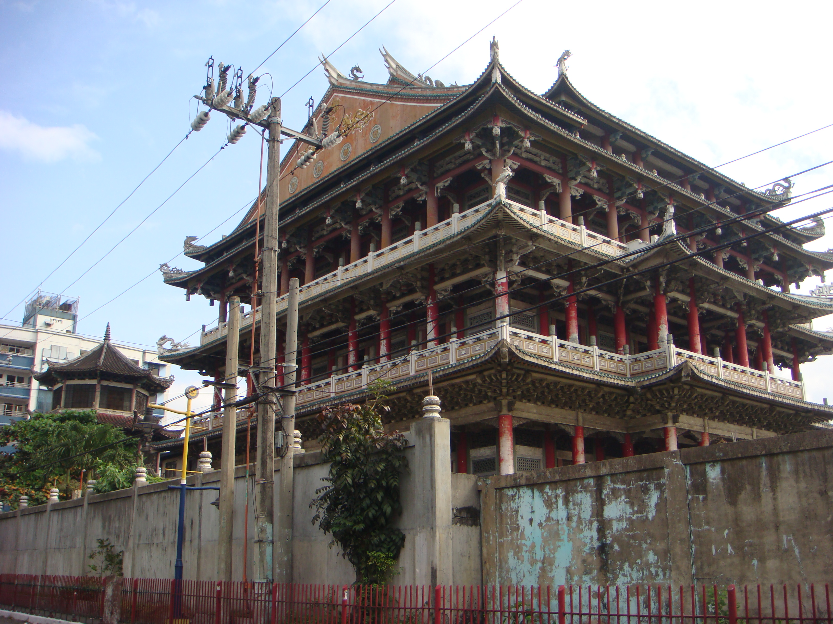 A century-old Taoist temple, a landmark built by the Chinese community in 5th Avenue LRT Station, Caloocan, Manila, Philippines